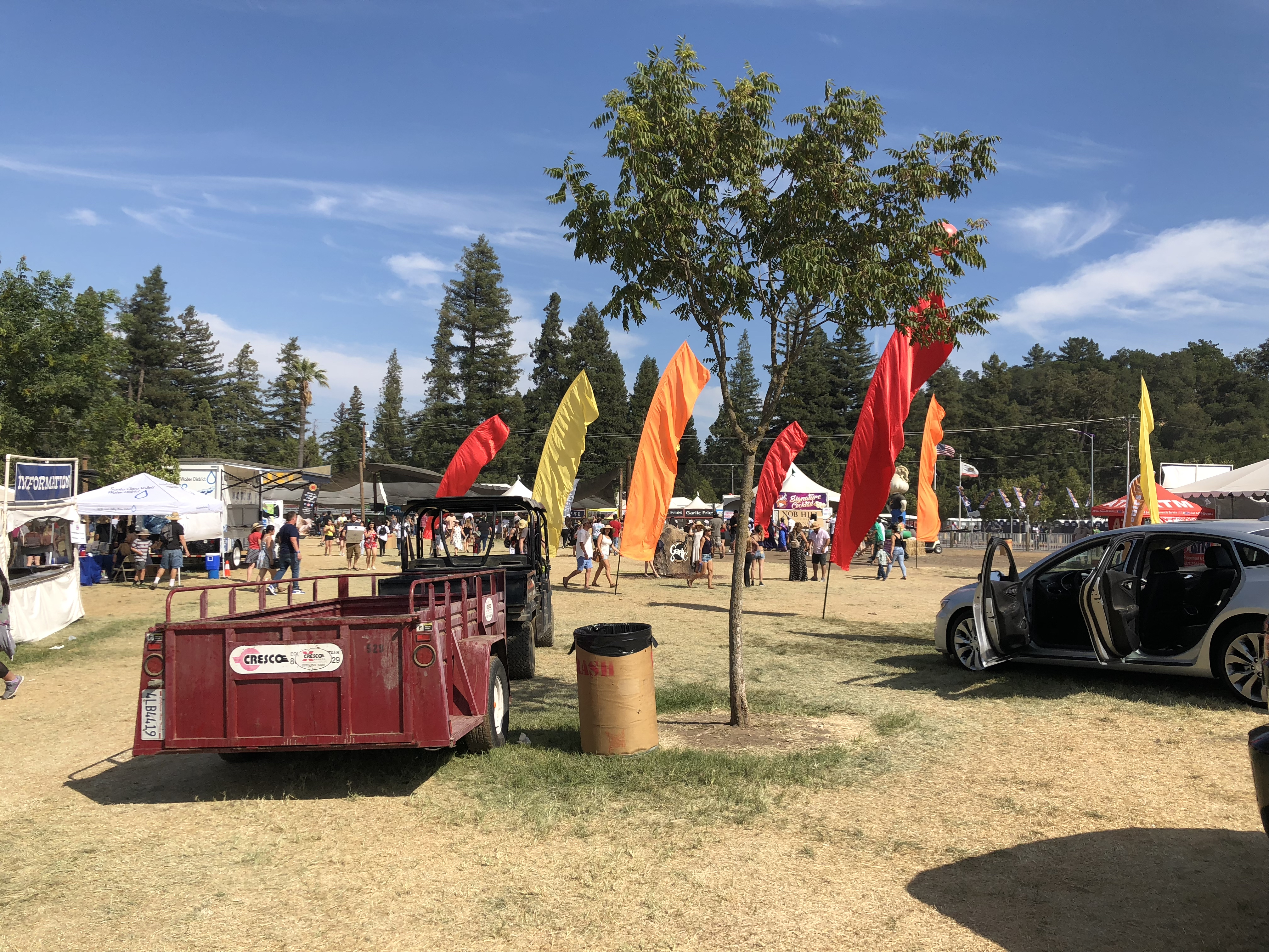 Gilroy Garlic Festival